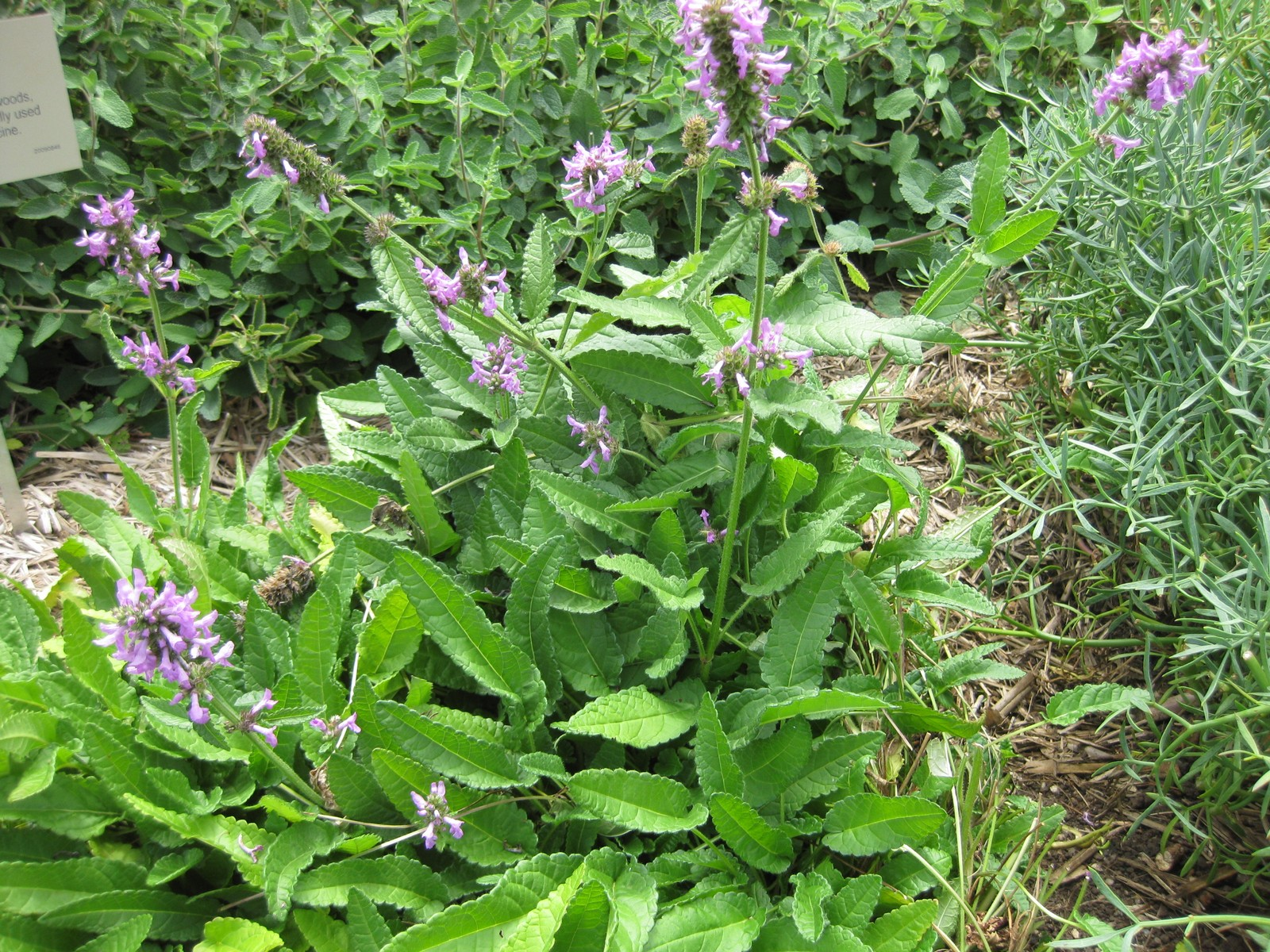 Photographed at the Royal Botanic Gardens Sydney (Australia) in January